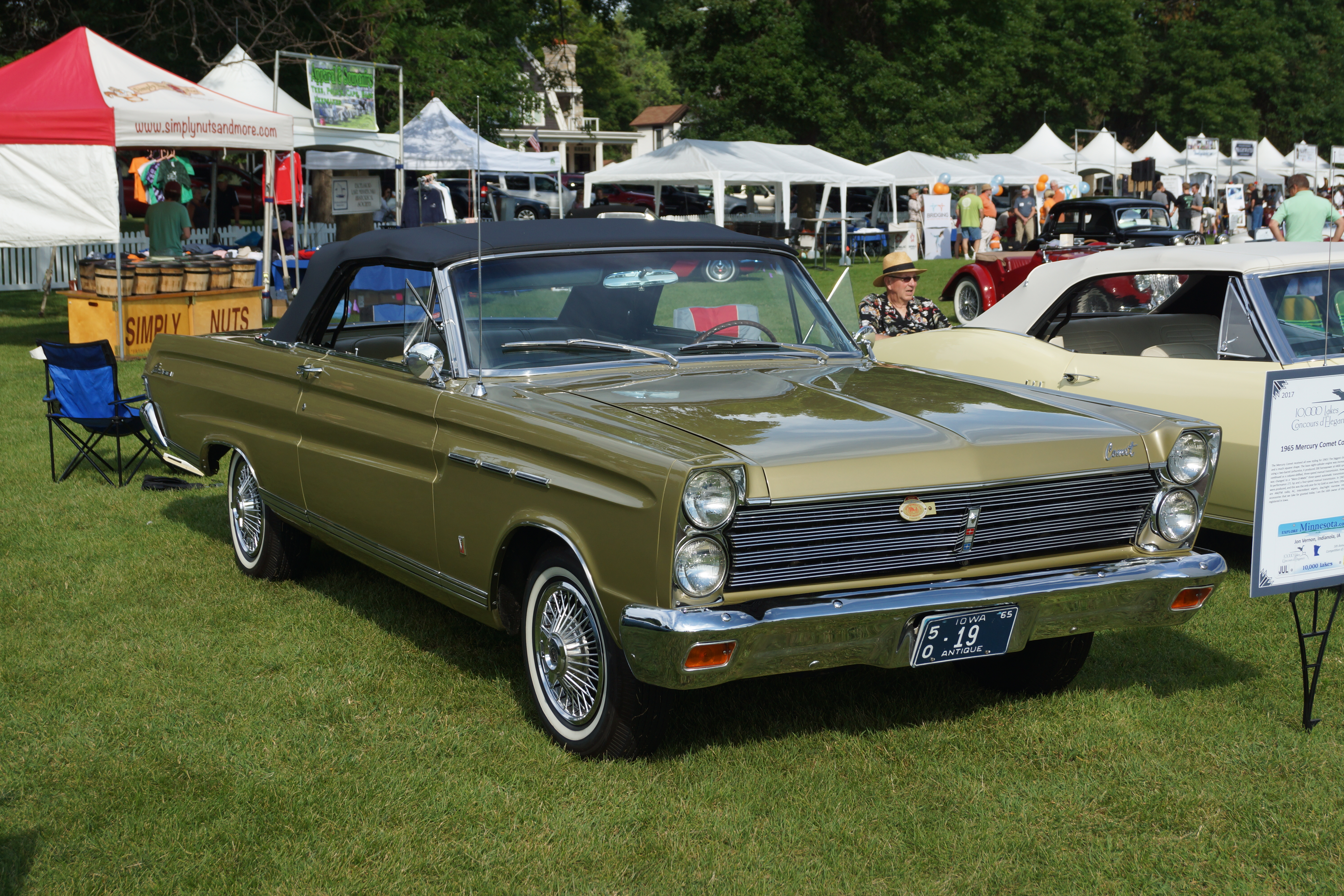 10,000 Lakes Concours d'Elegance Excelsior Commons Excelsior, Minnesota July 30, 2017 ***** Pictures of previous years 10,000 Lakes Concours d'Elegance Click here for more car pictures at my Flickr site. Or here for my Car Crazy Tumblr site. Or on Twitter @DVS1mn.